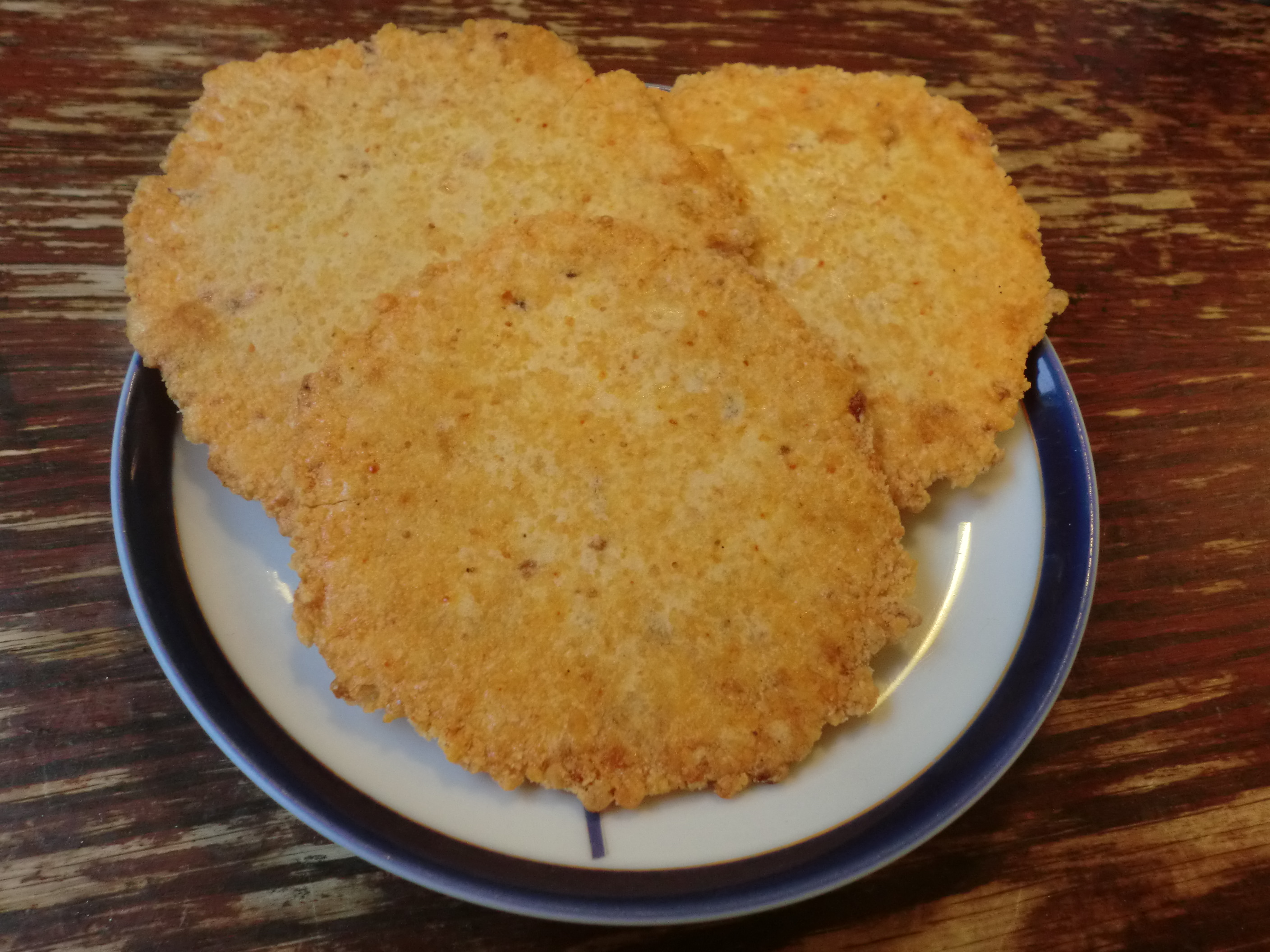 "Menbei"(mentaiko senbei) sold in Fukuoka prefecture, Japan.